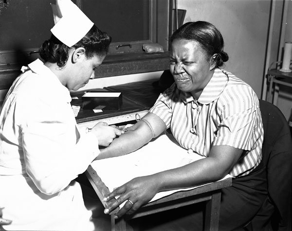 Nurse gives injection to woman, New Orleans, 1941. Original caption for photo set: "Statewide Public Health Project (Negro). This project is making an important contribution to public health and community welfare by providing professional and non-professional assistance to public hospitals and clinics thereby releasing the regular staff of time consuming tasks. This photo shows WPA clerks and technicians at the Flint-Goodrich Hospital in New Orleans."